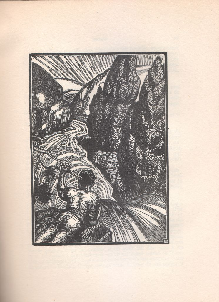 Louis William Graux (1889-1962) - Une illustration de Regain de Jean Giono, 1935, Paris, Arthème Fayard et Compagnie Editeurs, Collection "Le Livre de Demain" .